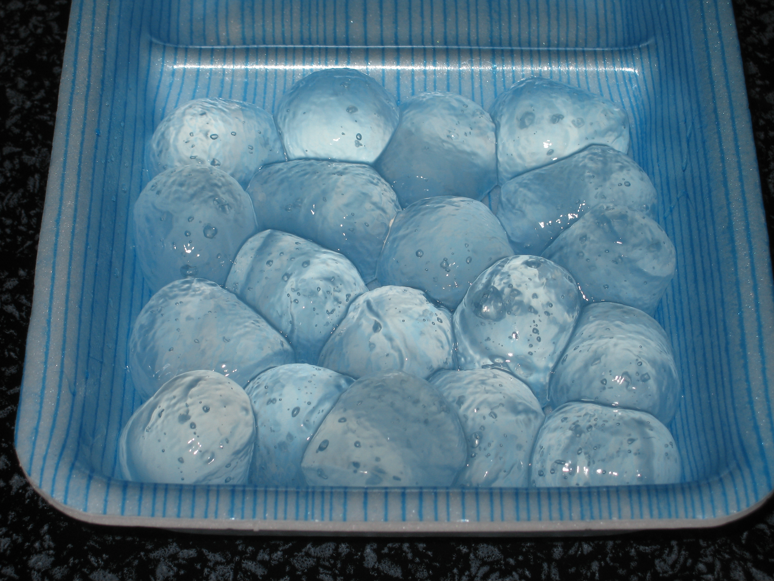 Warabi mochi